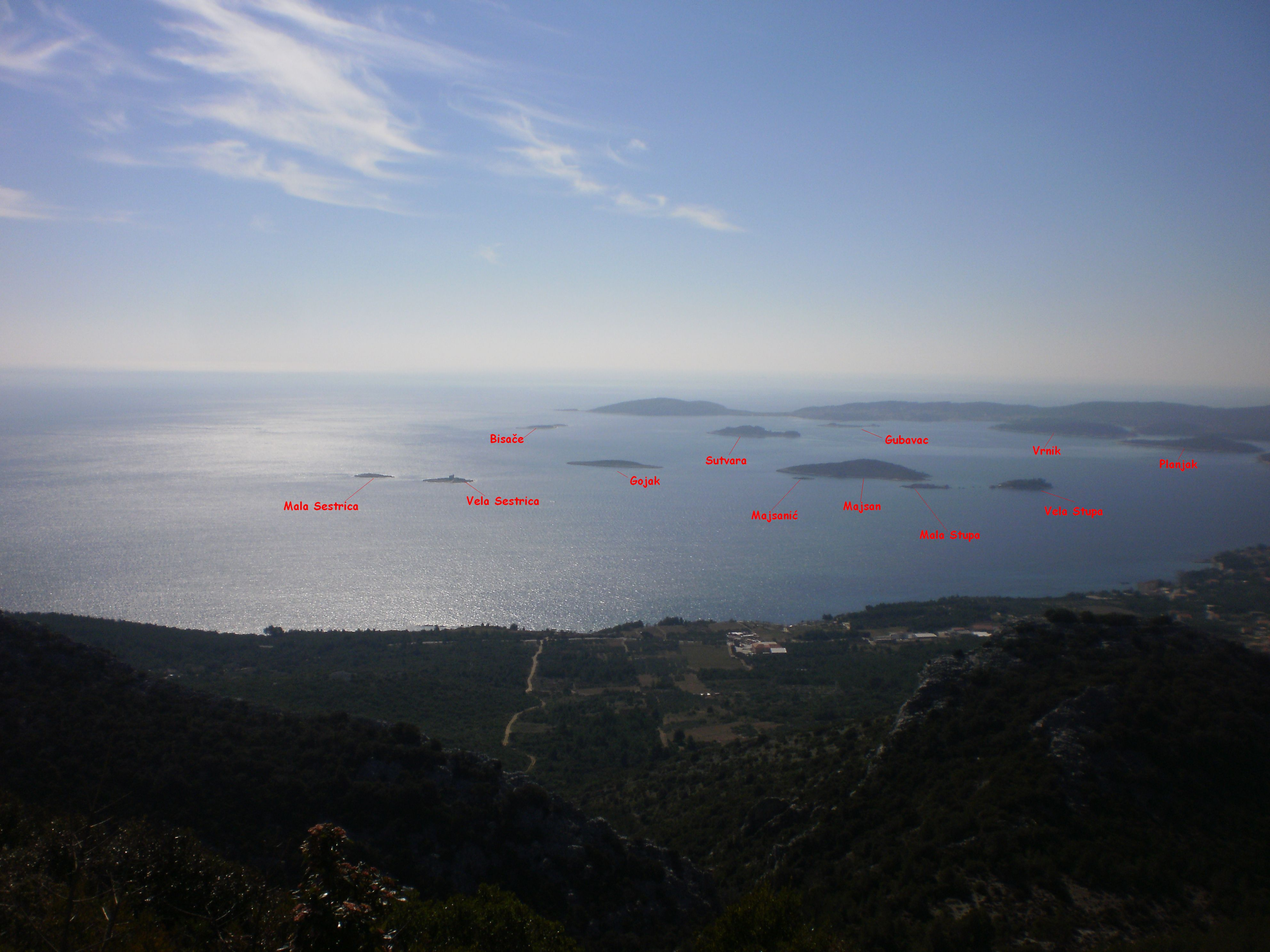 Small islands in Pelješac channel with Lumbarda in background OLYMPUS DIGITAL CAMERA